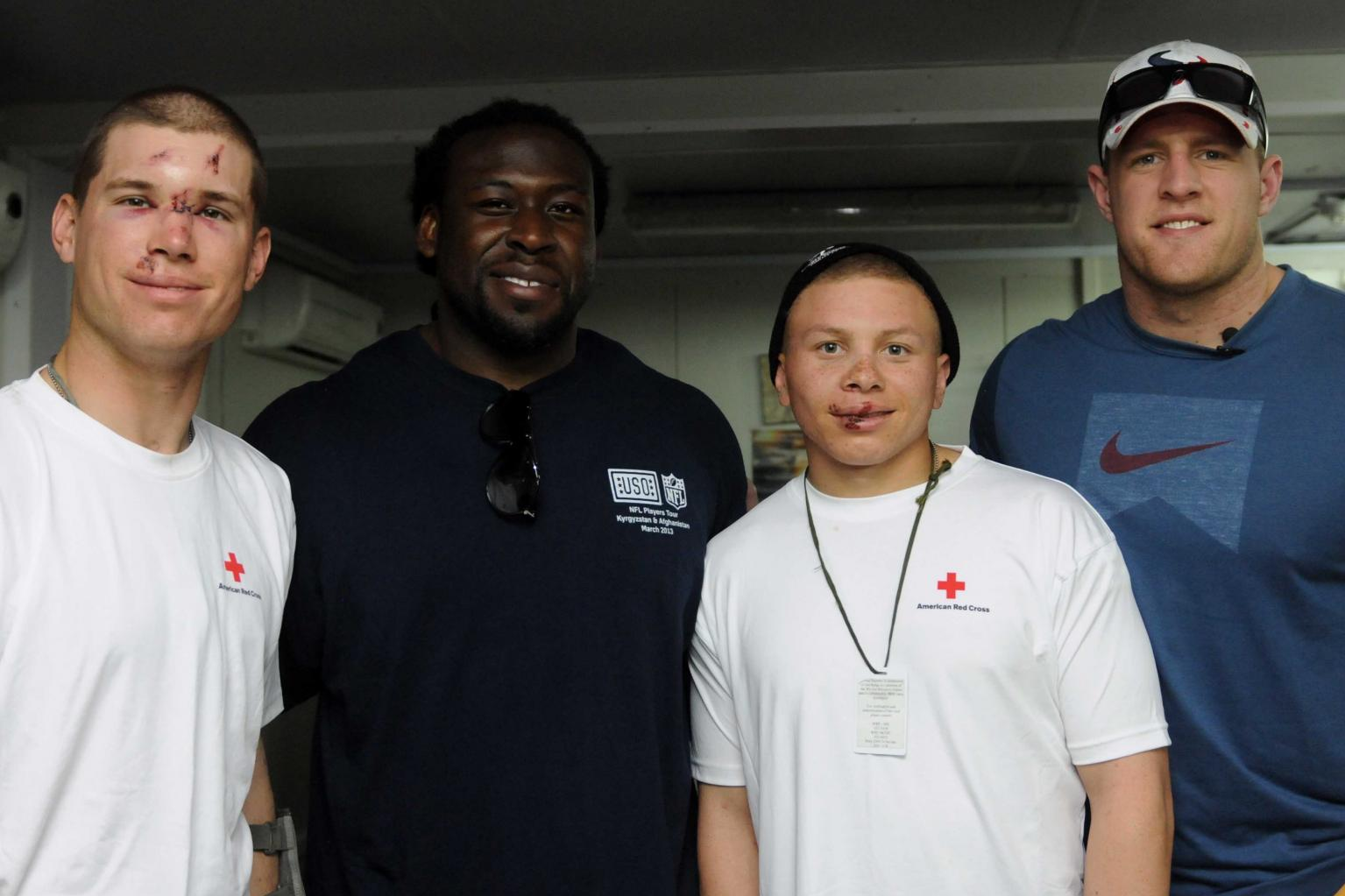 Davin Joseph and Justin James "J.J." Watt visits troops at the Warrior Recovery Center in Regional Command-South, Afghanistan, March 18, 2013.